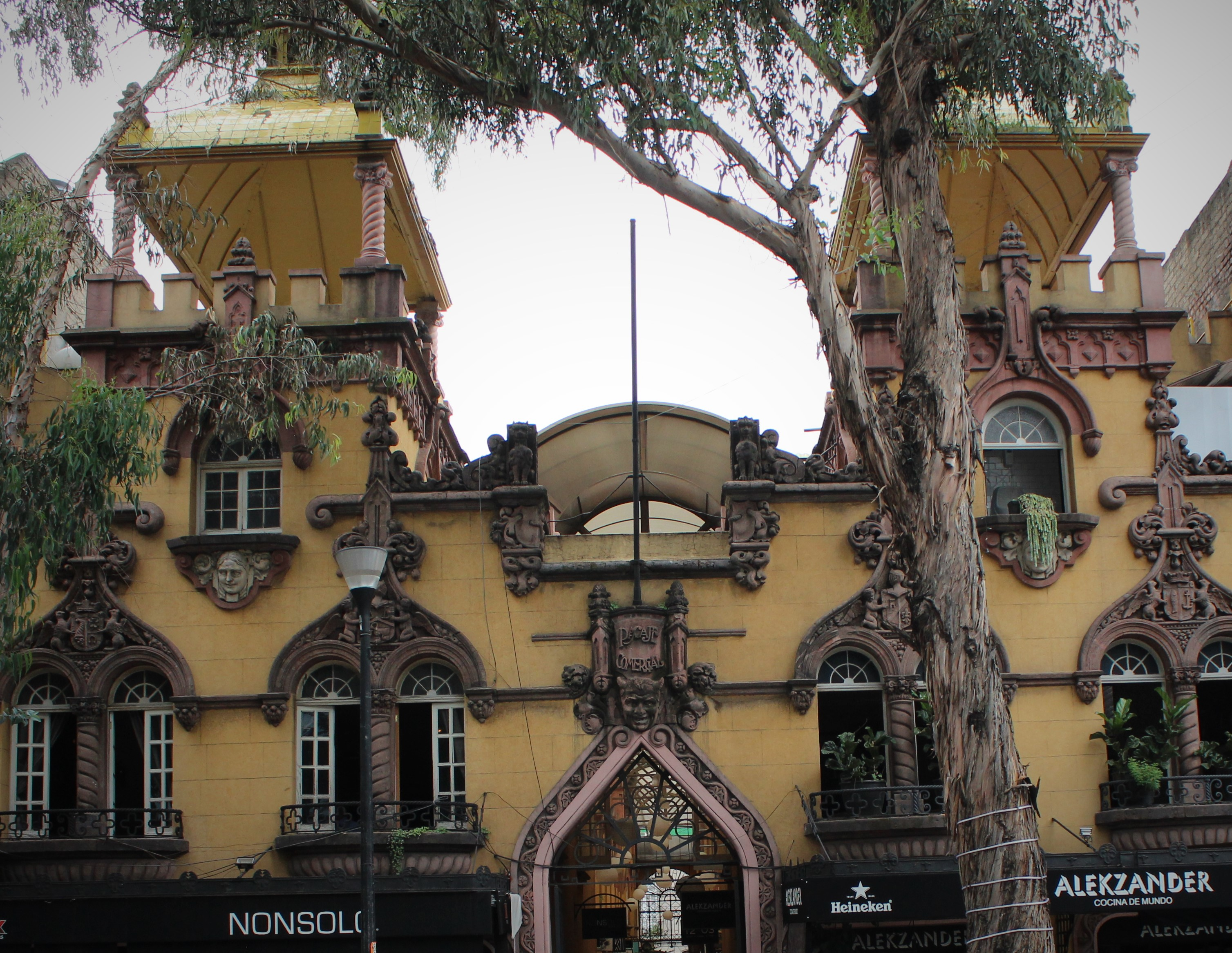 Ancient yellow building located in the street Álvaro Obregón, it has reddish details under the windows and it has a huge tree at the entrance of this place.